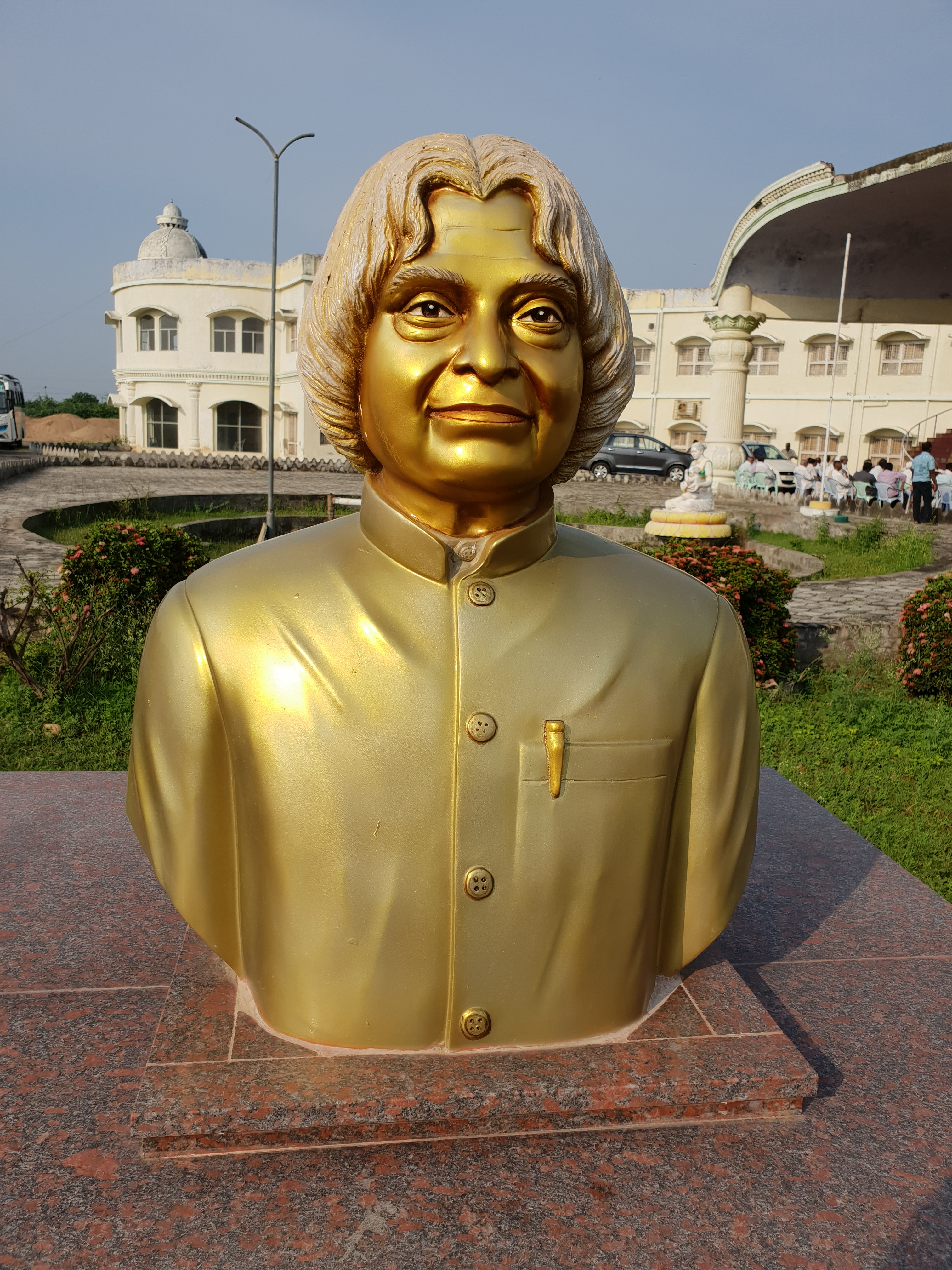 The statue of Abdul Kalam statue at VIMS in Viswagar Rajasekhar1961 (talk) 16:02, 21 January 2019 (UTC)